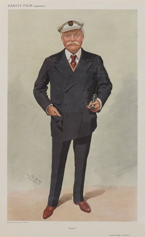 Men of the Day No.1183: Caricature of Lord Leith of Fyvie. Caption reads: "Fyvie"